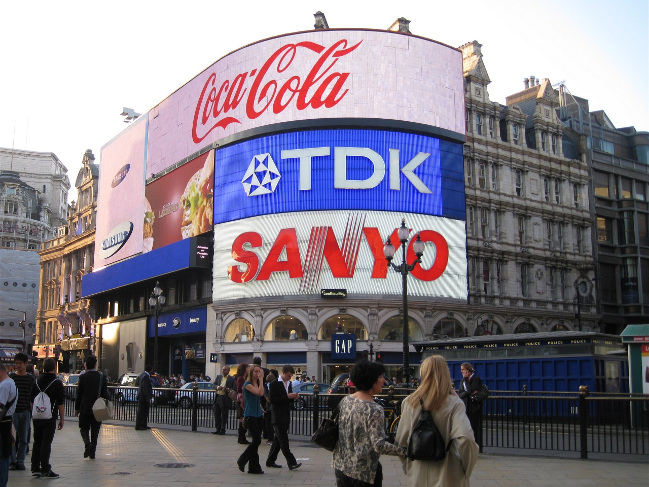 The neon signs of Piccadilly Circus in London, England.